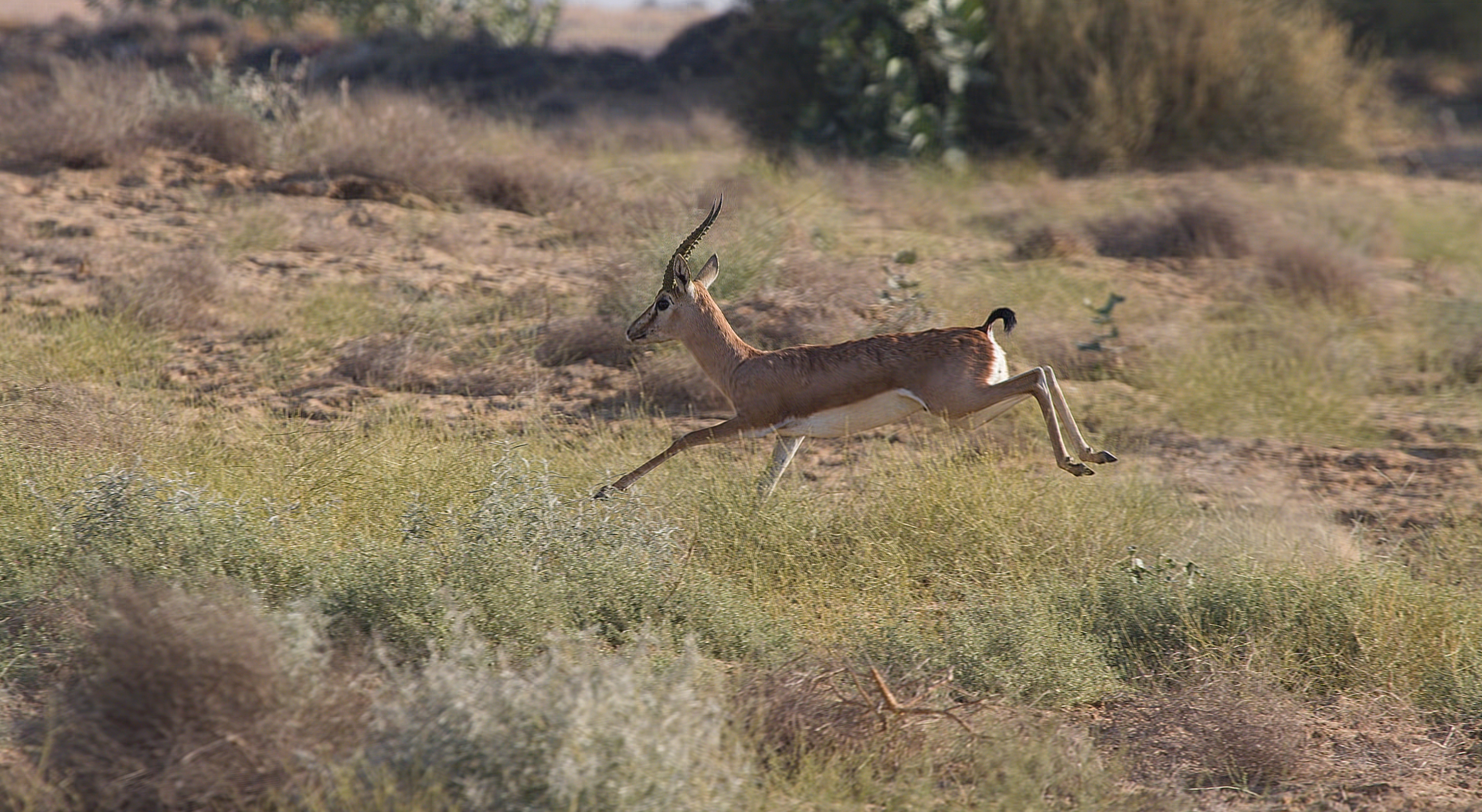 Chinkara or Indian gazelle captured at Desert NP